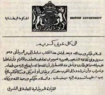 English WW II propaganda leaflet identifying the carrier of this paper as an English officer and asking to deliver him to the nearest English or American camp.